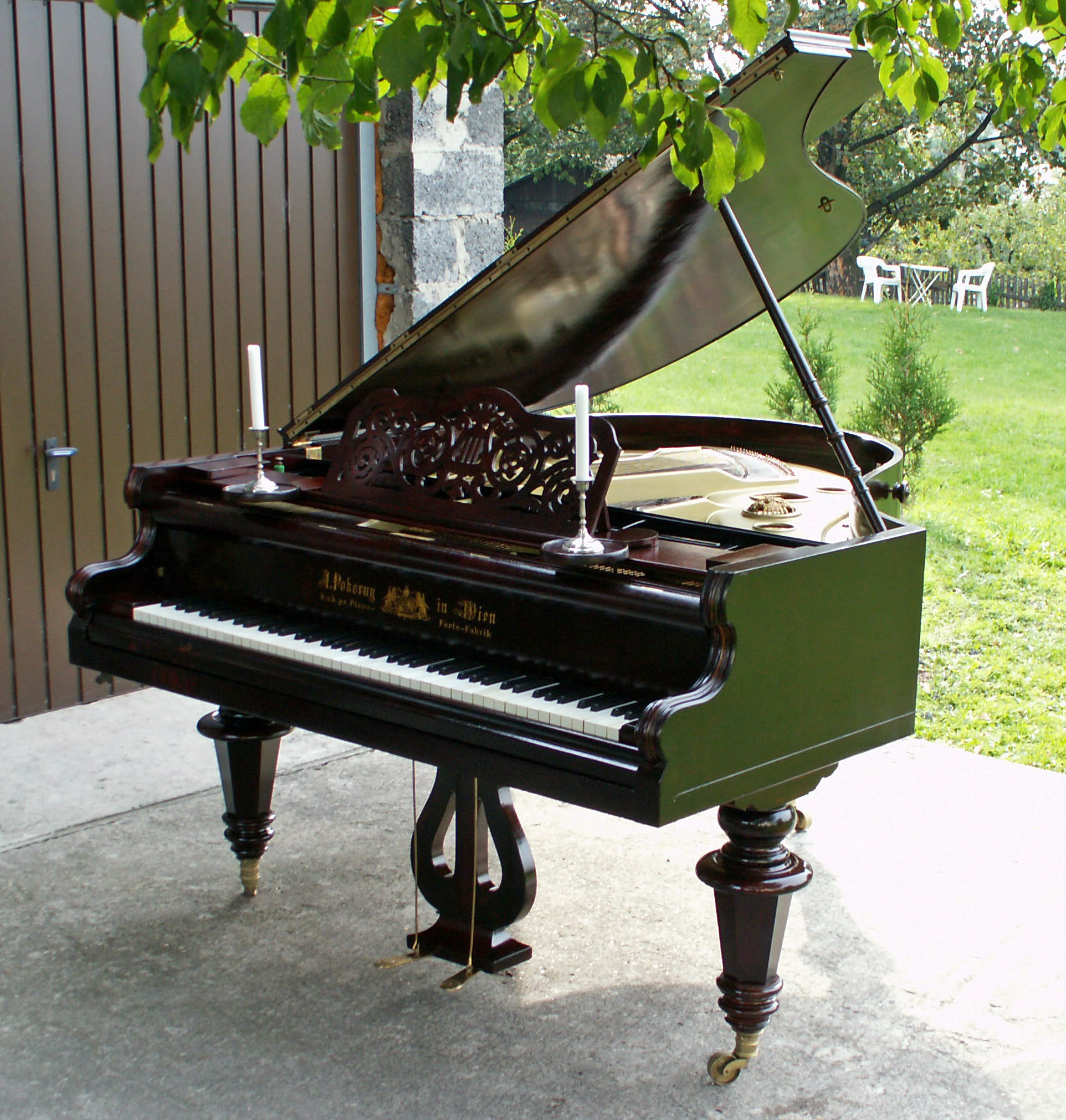 Piano A. Pokorny, Vien, 1905